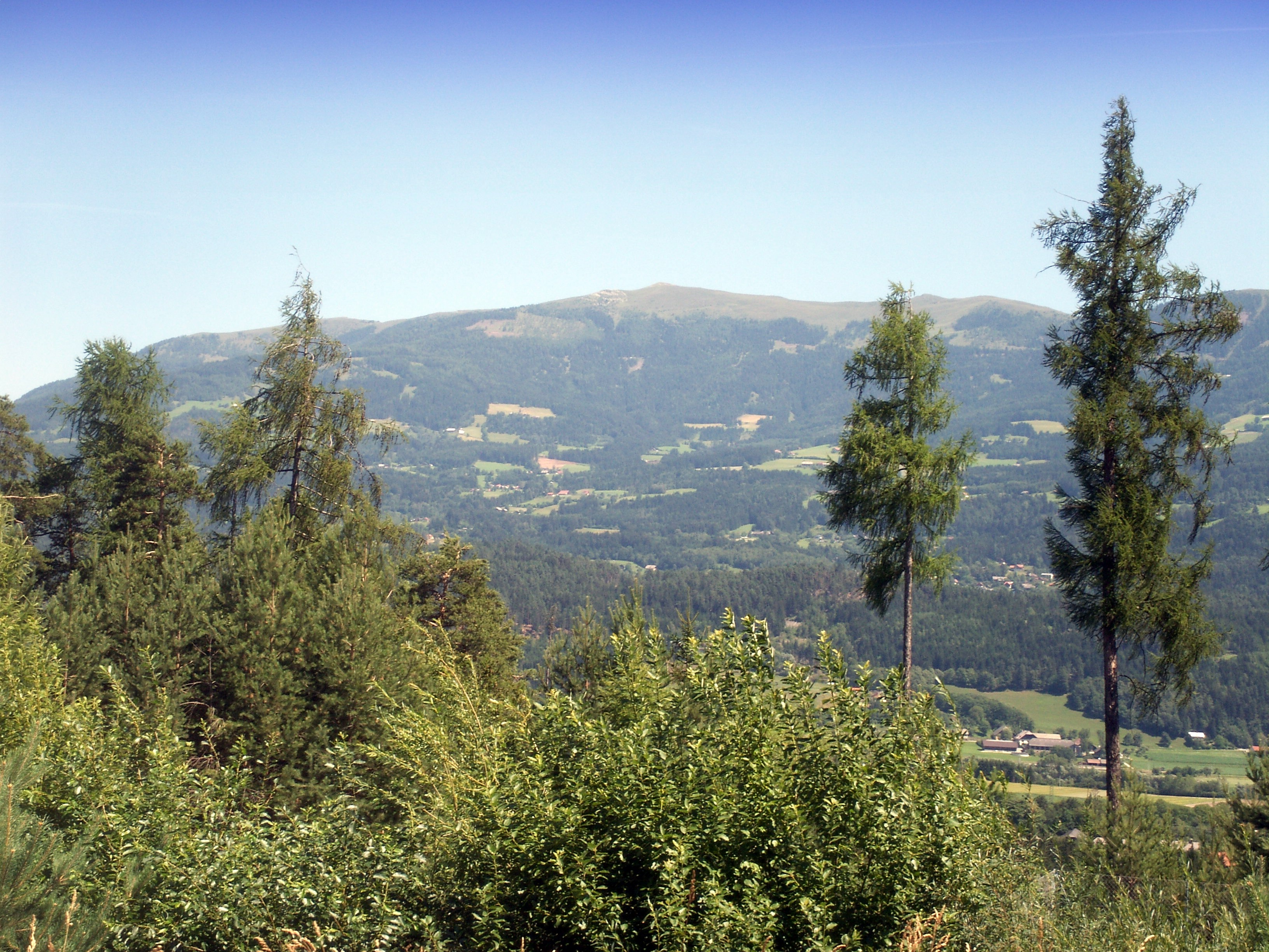 Mirnock district Spittal an der Drau in Carinthia / Austria / EU.